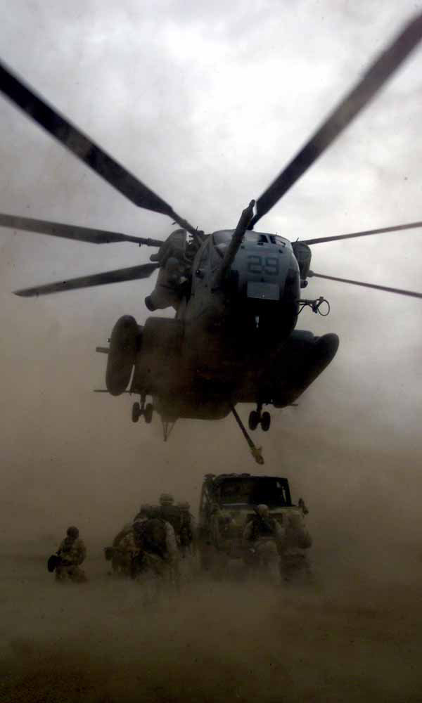 Camp Coyote, Kuwait (Feb. 24, 2003) -- A CH-53 “Sea Stallion” helicopter hovers over a British military vehicle. United States Marines and the Royal Marines Commando are working in a joint operation to lift vehicles for transport. U.S. Marine Corps photo by LCpl Jonathan Sotelo. (RELEASED)